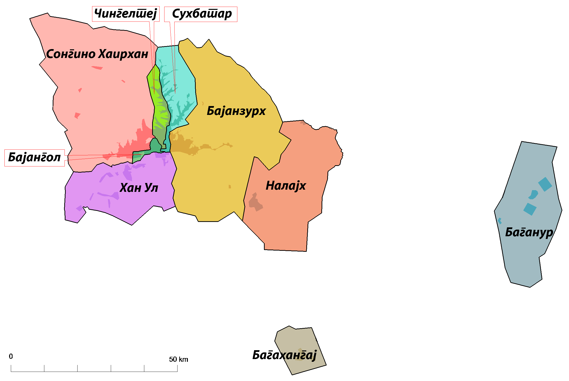 Map of Ulan Bator on Macedonian language.